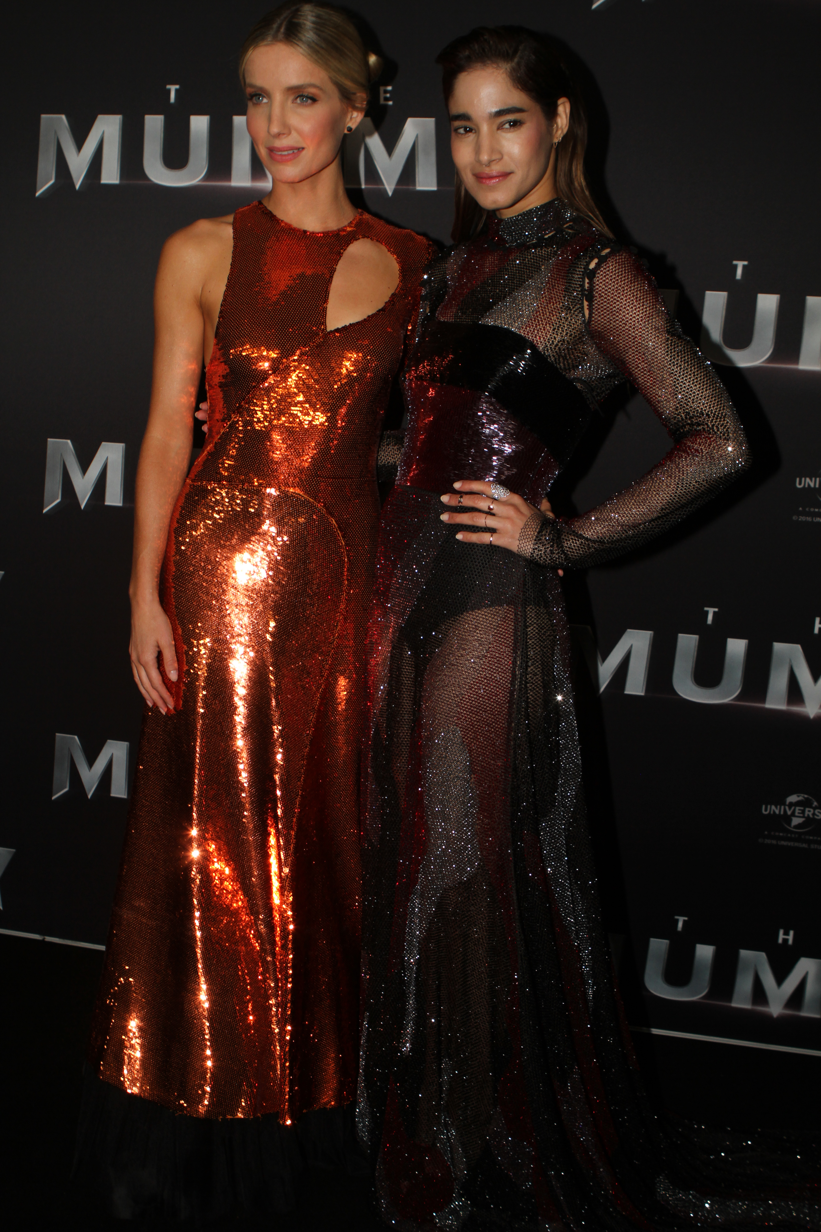 Annabelle Wallis and Sofia Boutella at The Mummy Black Red Carpet